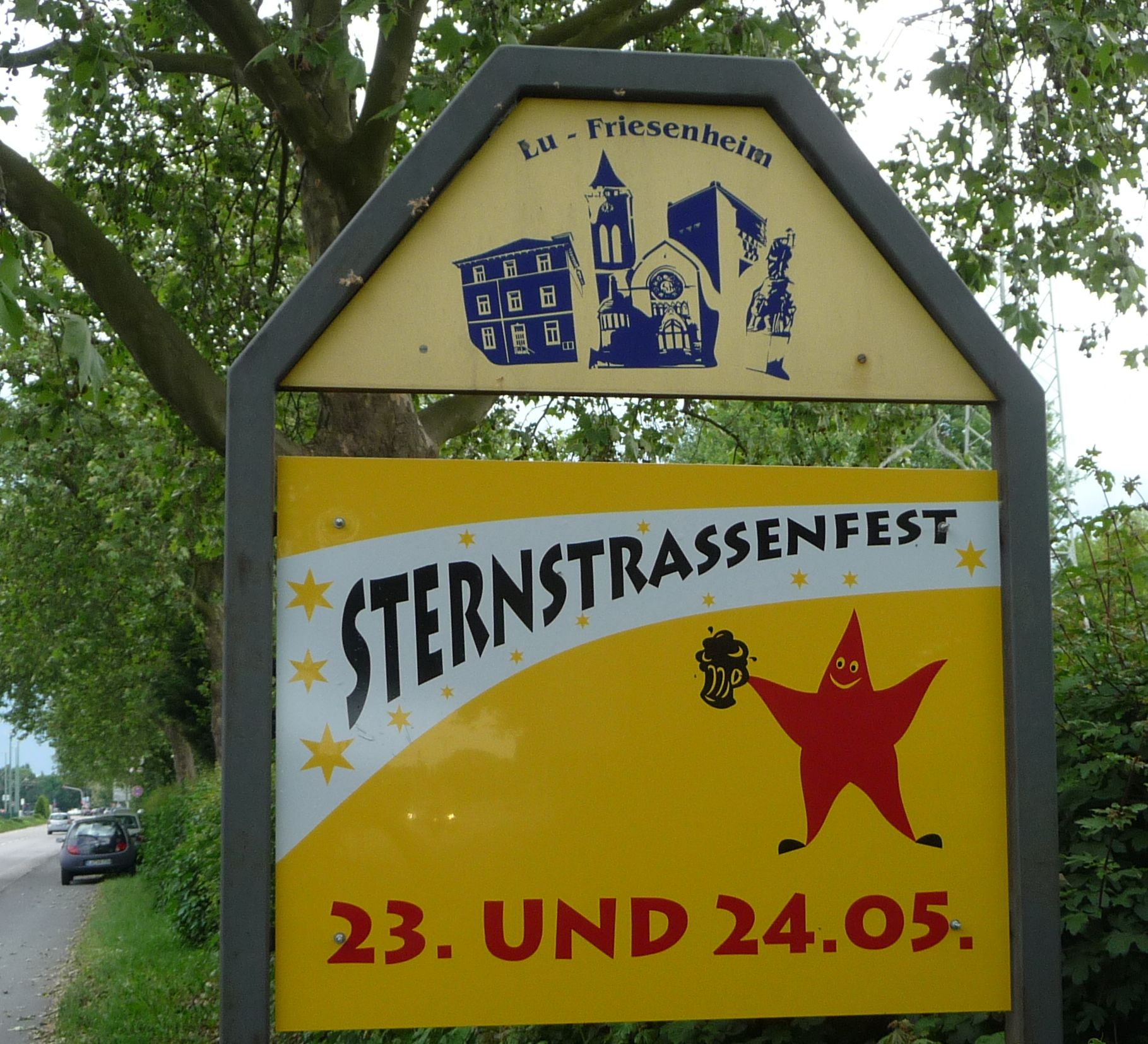 Ludwigshafen, Germany